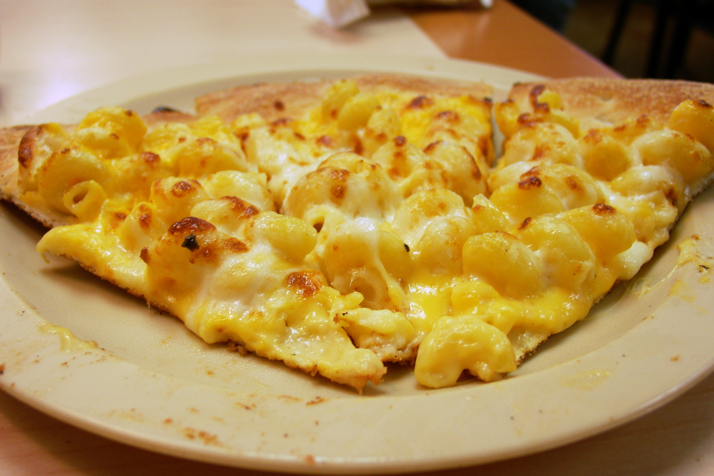 Macaroni and cheese pizza from Cici's Pizza, an American buffet-style restaurant.Macaroni and Cheese pizza II